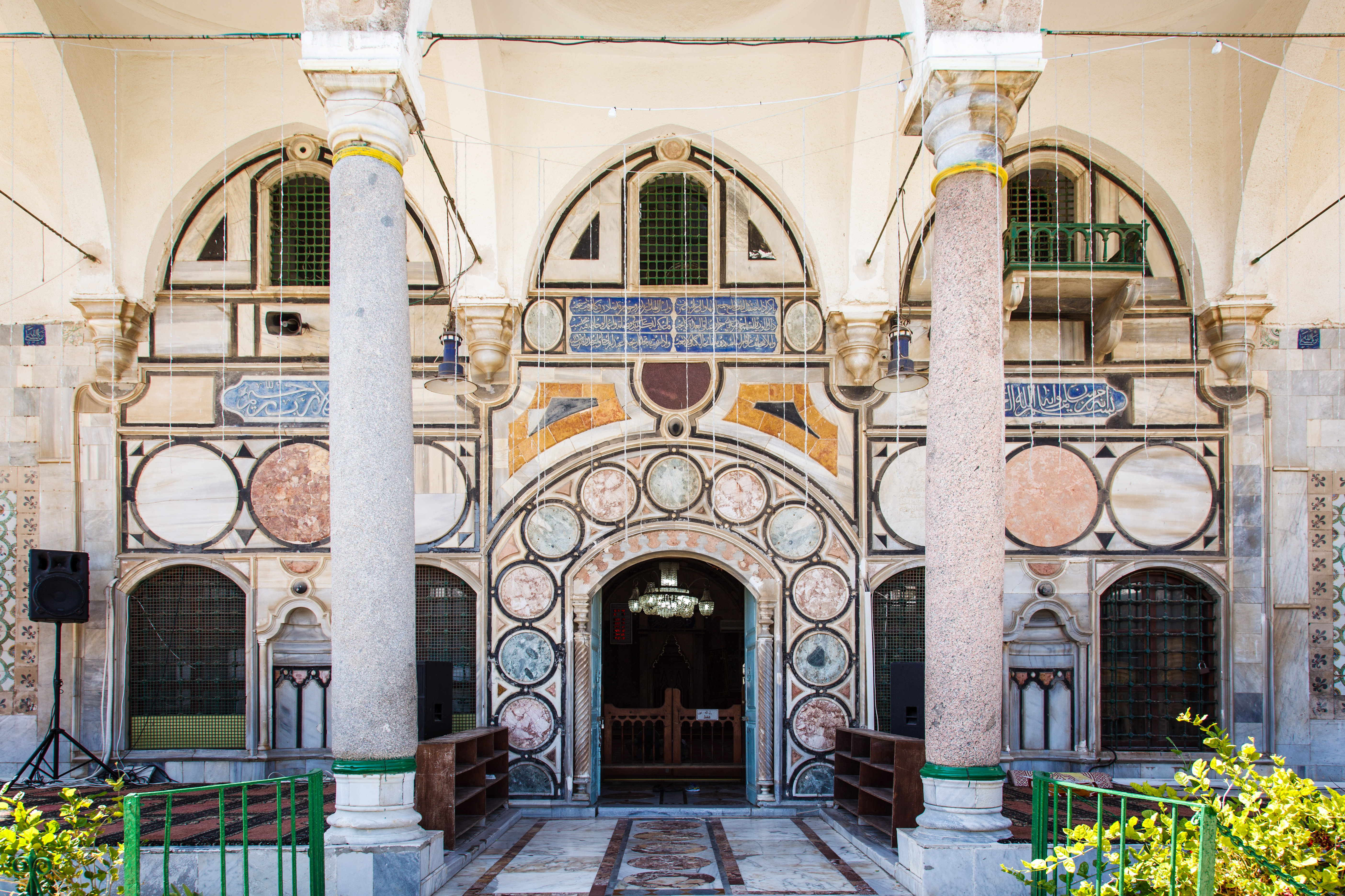 Al Jazar Mosque in Acre